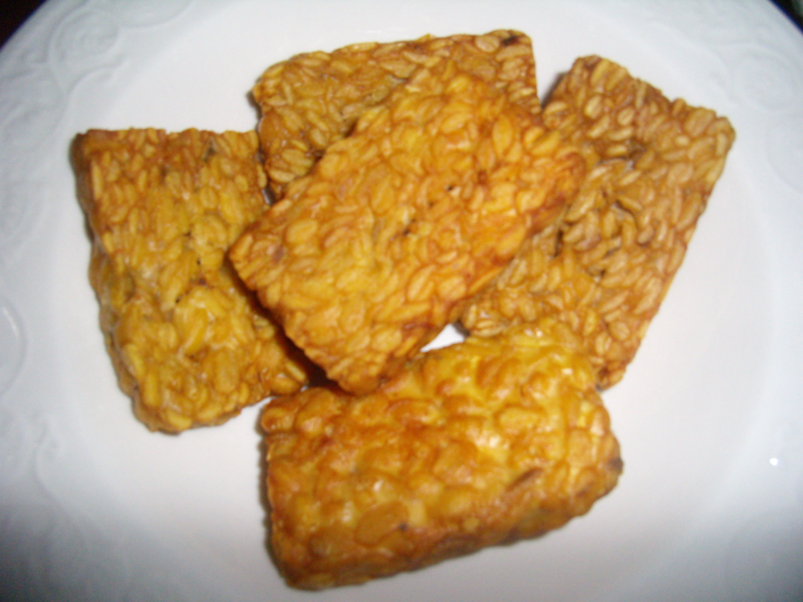 Tempeh, marinated in a bit of water and garlic and salt, and pan-fried—a typical Indonesian way to prepare tempeh.